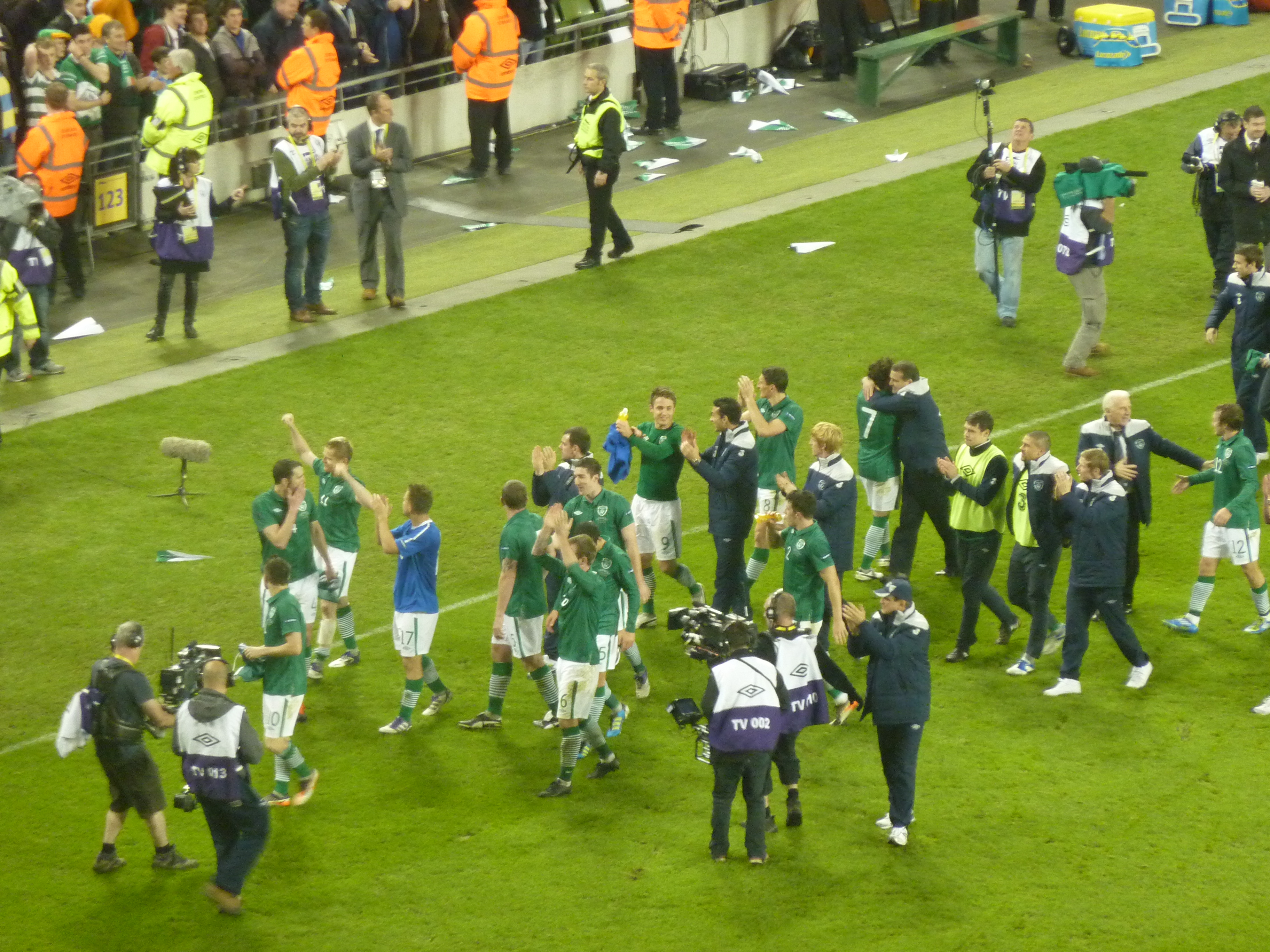 Ireland -v- Estonia Euro 2012 Qualifier 2nd Leg